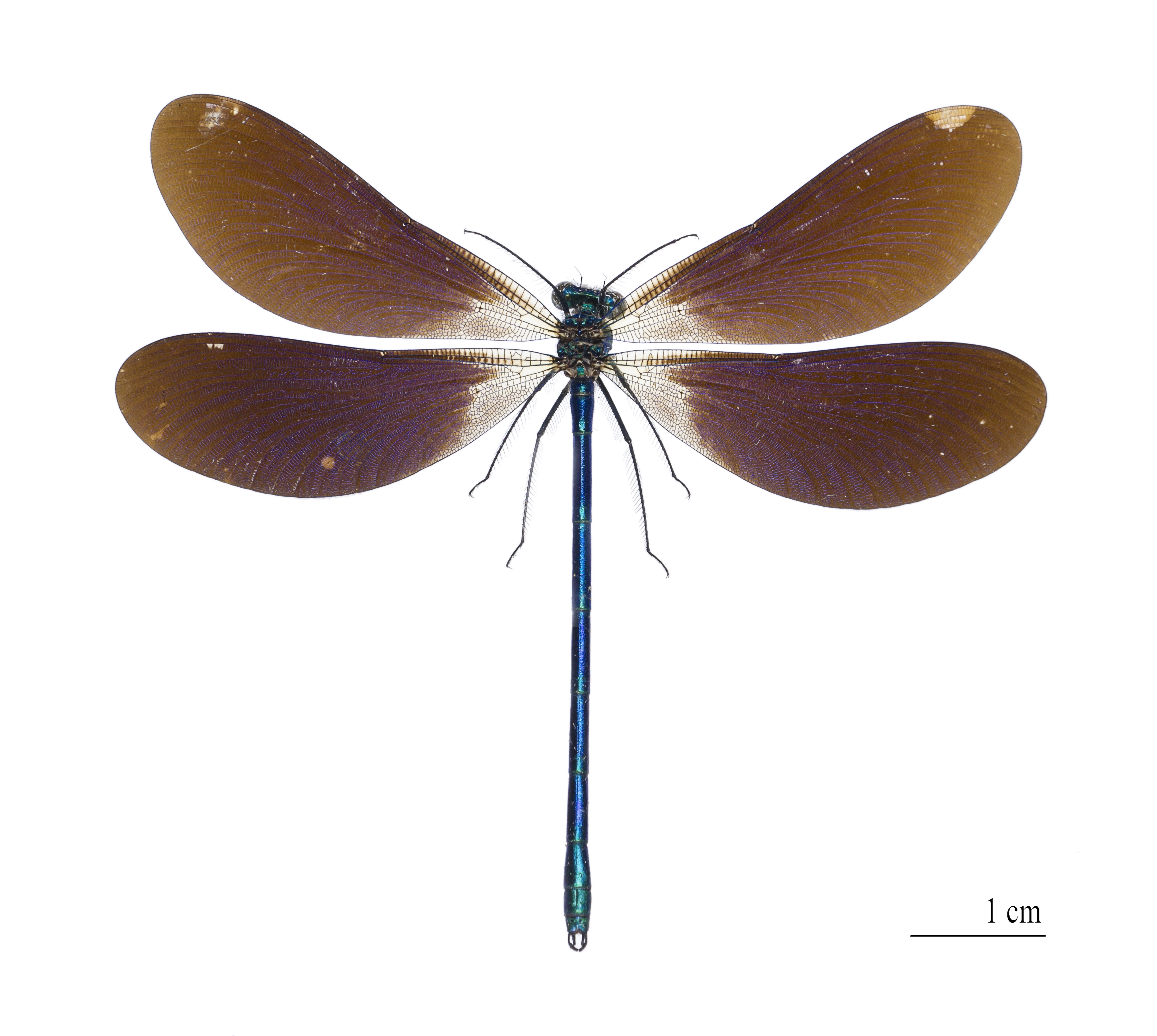 Calopteryx virgo - Dorsal side